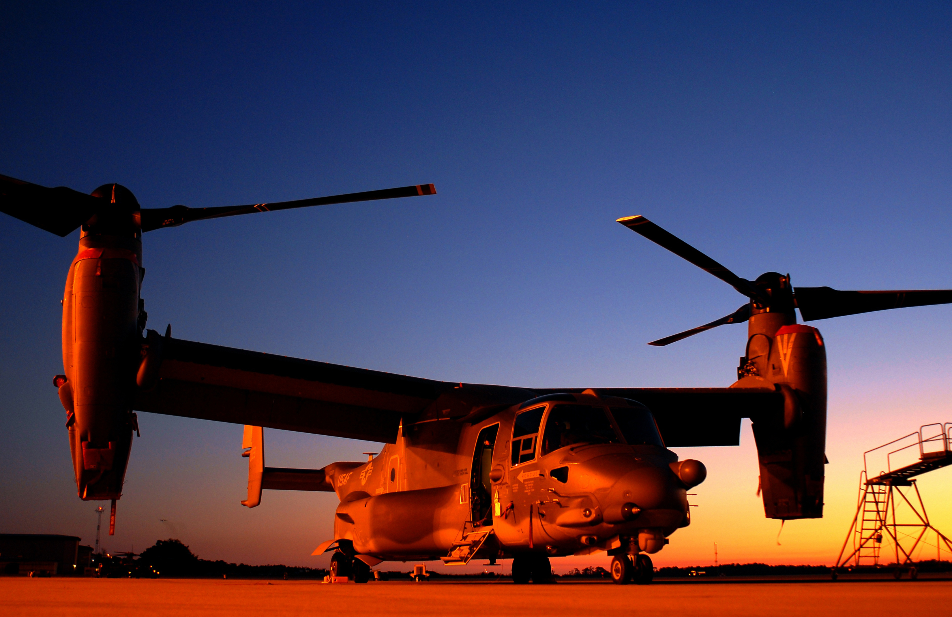 US Air Force Special Operations Command CV-22, of the en:8th Special Operations Squadron of the en:1st Special Operations Wing, on the flightline at Hurlburt Field, Fla.